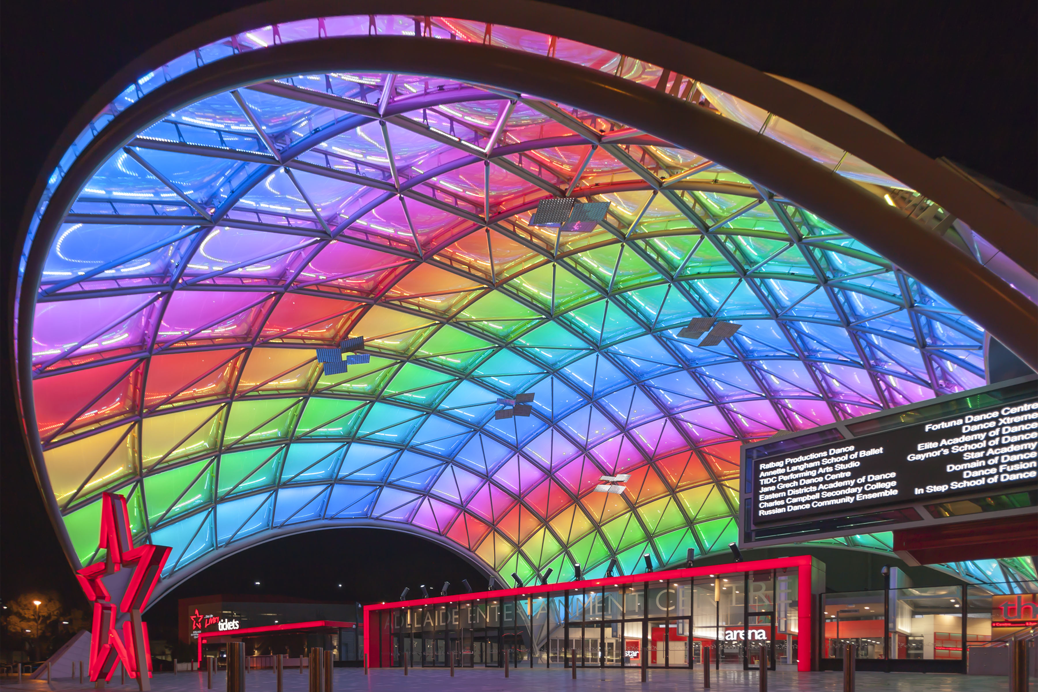 Adelaide Entertainment Centre at night after redevelopment.